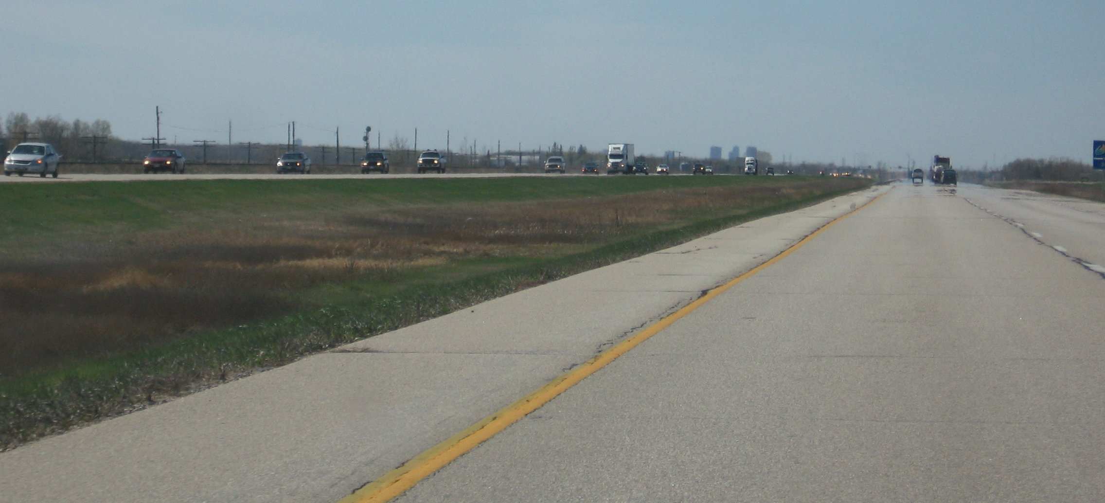 Westbound heading to Winnipeg near Lorette, Manitoba (East of Winnipeg)